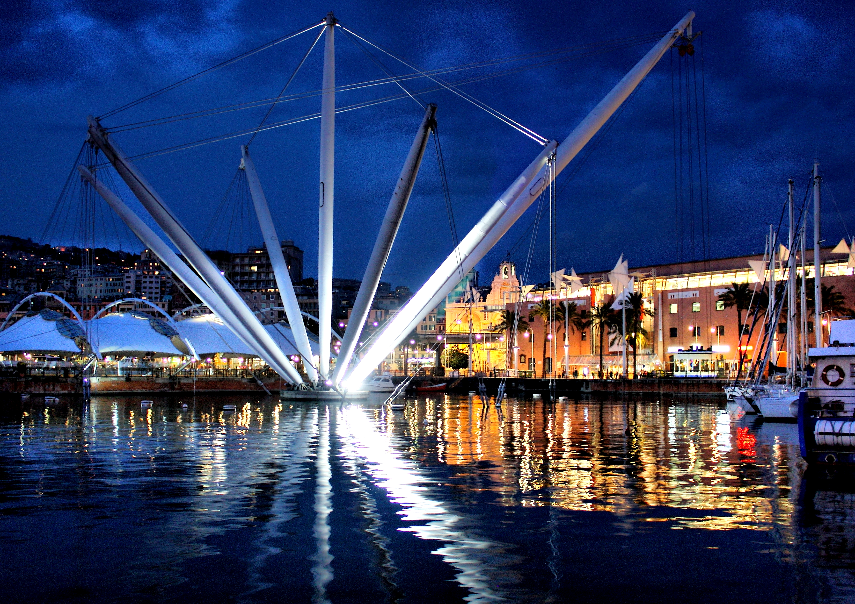 Genova at Night!